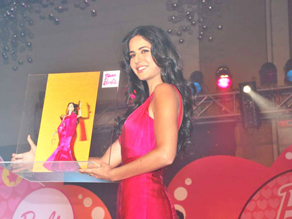 Katrina launches her new Barbie doll